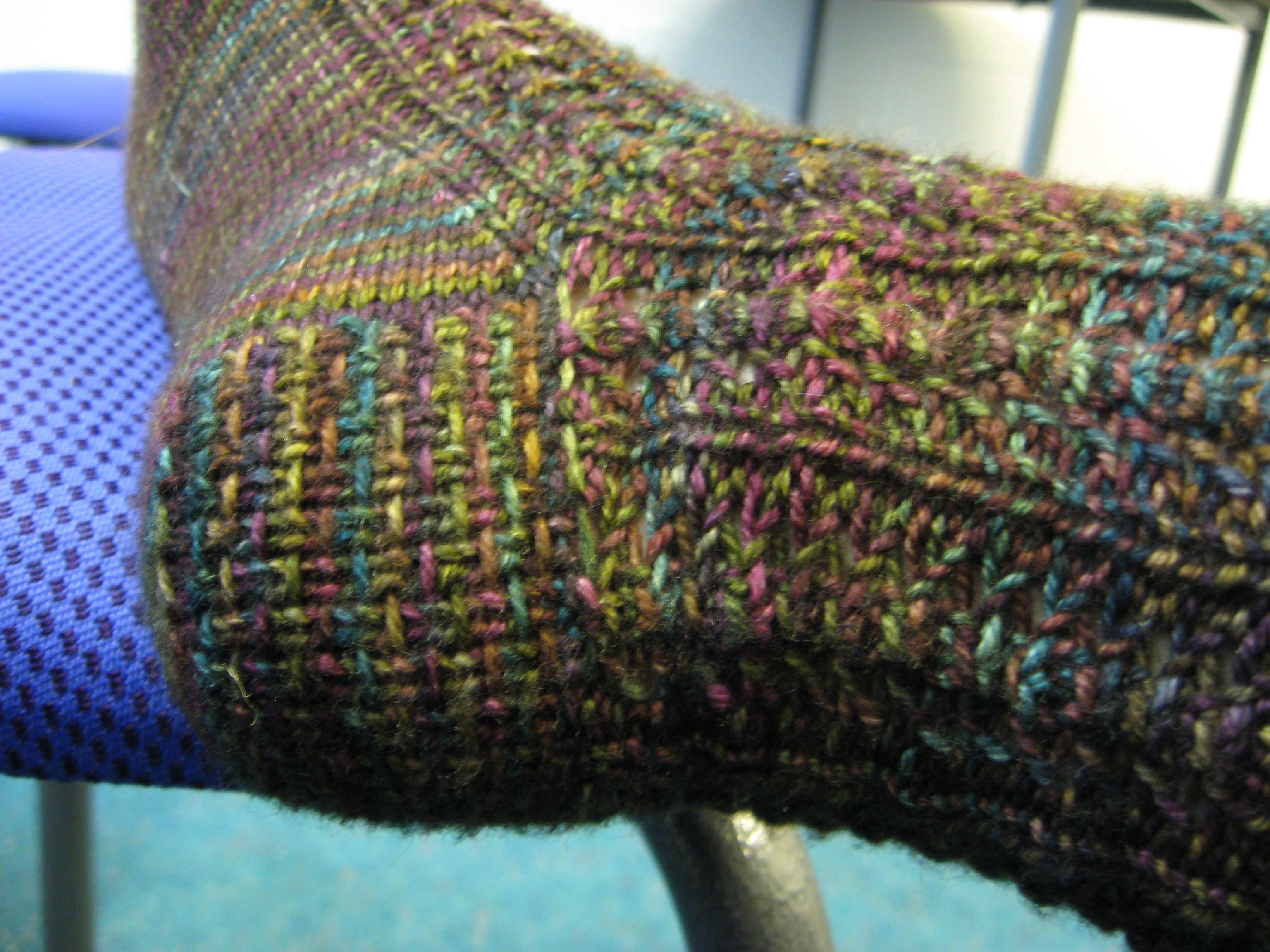 Linen stitch used in a hand-knitted sock to reinforce the heel.